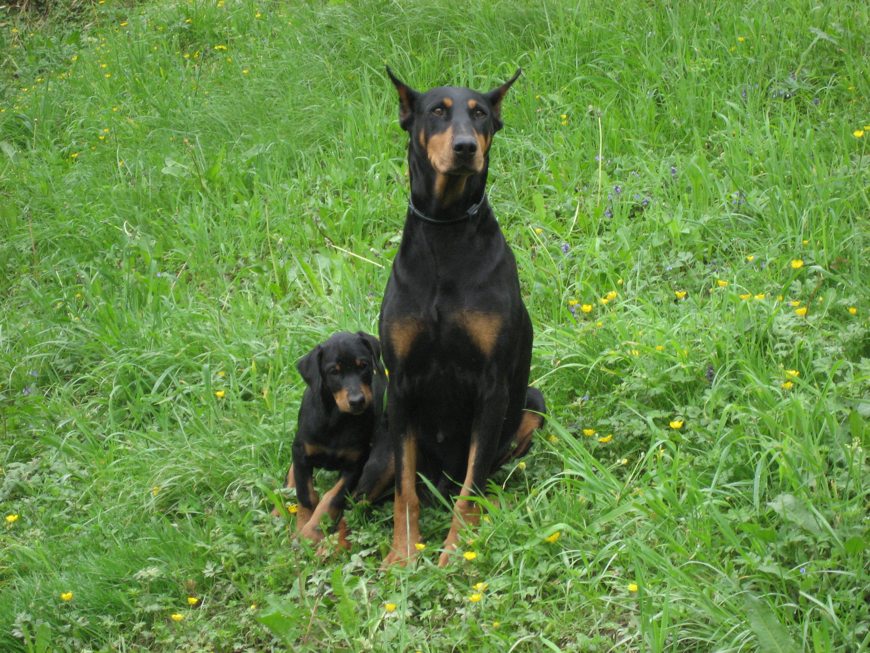 Female dobermann and his(her,your) puppy in attitude of rest, in a landscape.